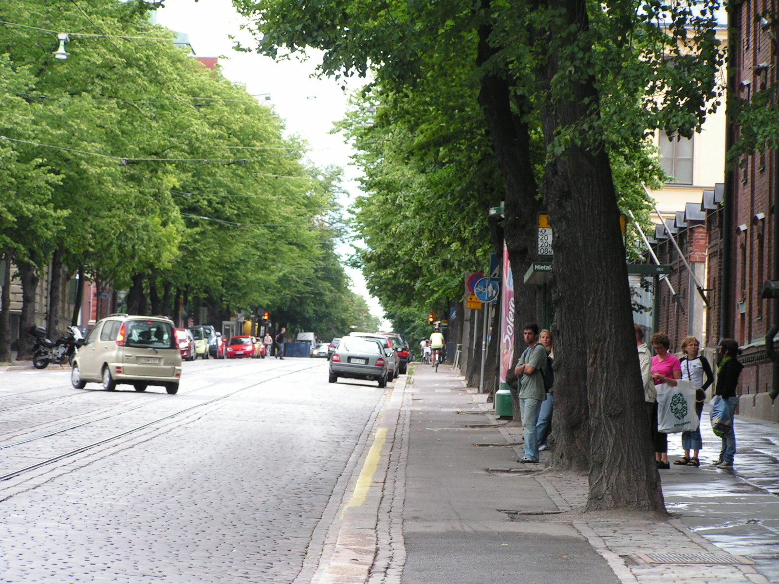 Tram and bus stop on Bulevardi, Helsinki. Source: Taken by myself, August 02, 2005